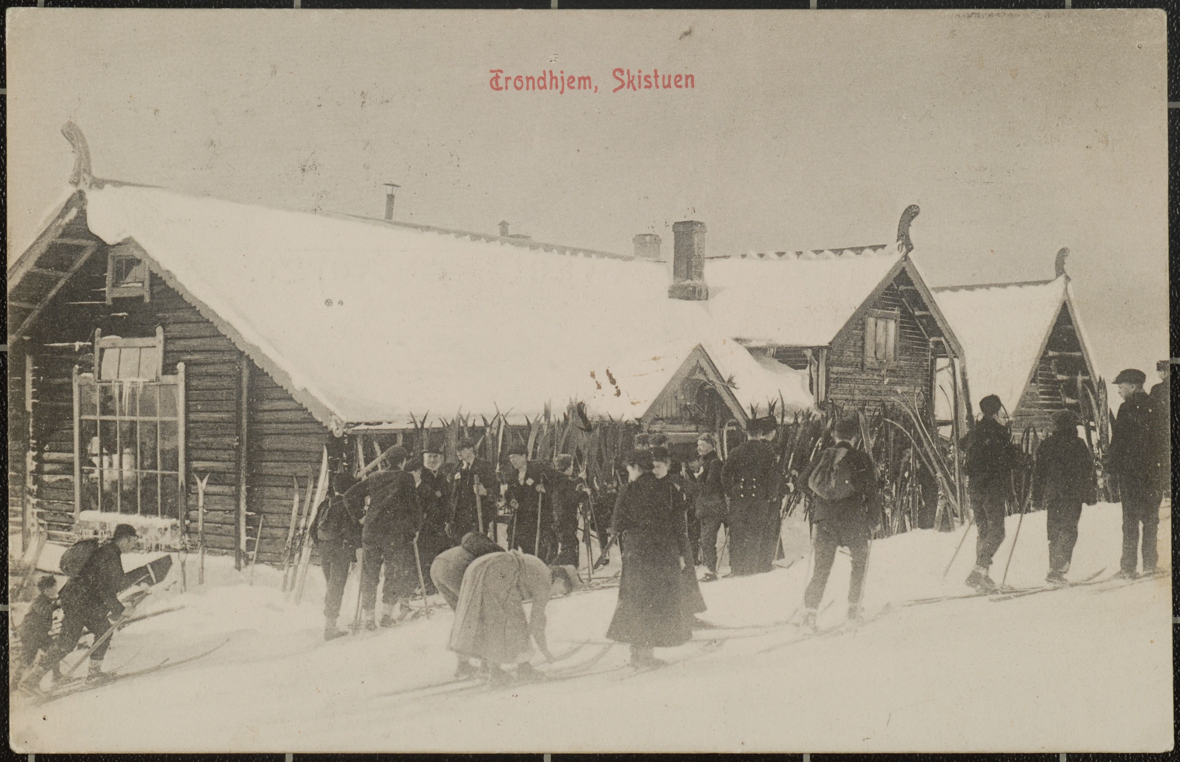 Skistua (=The Ski cottage), a popular resort for ski-goers in the outskirts of Trondheim, Norway. Destroyed in a fire in 1947. Today another "Skistua" has been erected on the same site